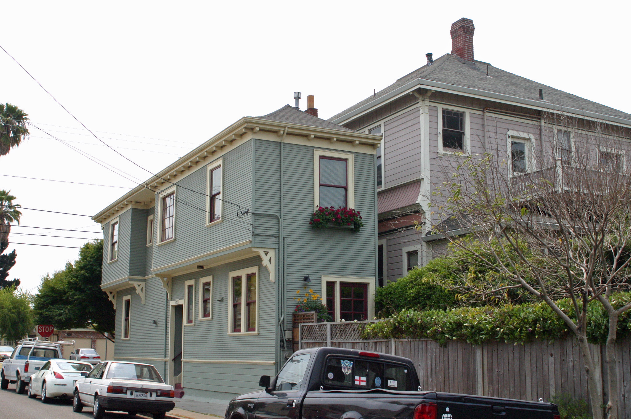 Alameda spite house at Broadway & Crist St, Alameda, California 94501